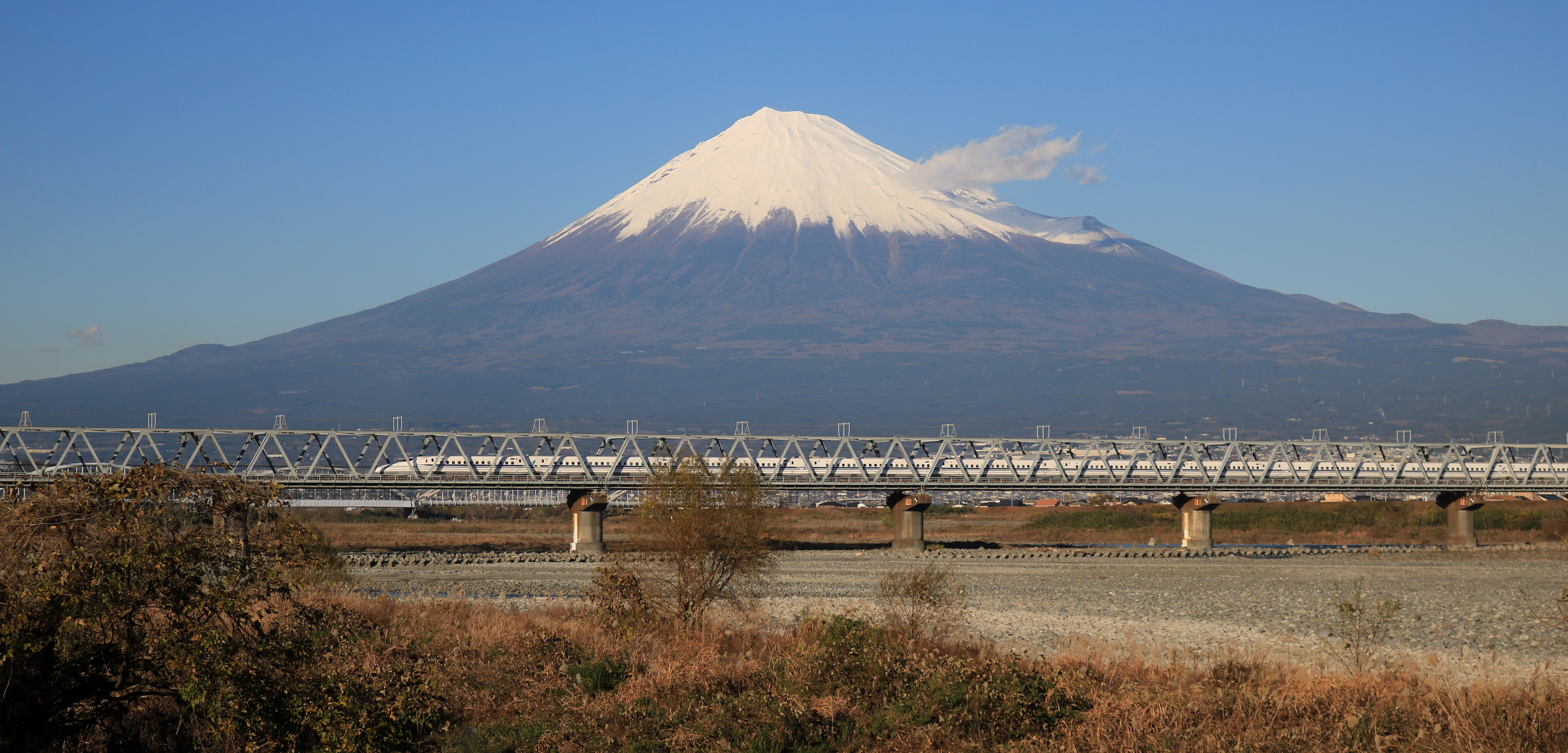 Mount Fuji and N700 series shinkansen train crossing the Fujikawa Bridge on the Tōkaidō Shinkansen over the Fuji River in Shizuoka Prefecture, Japan.